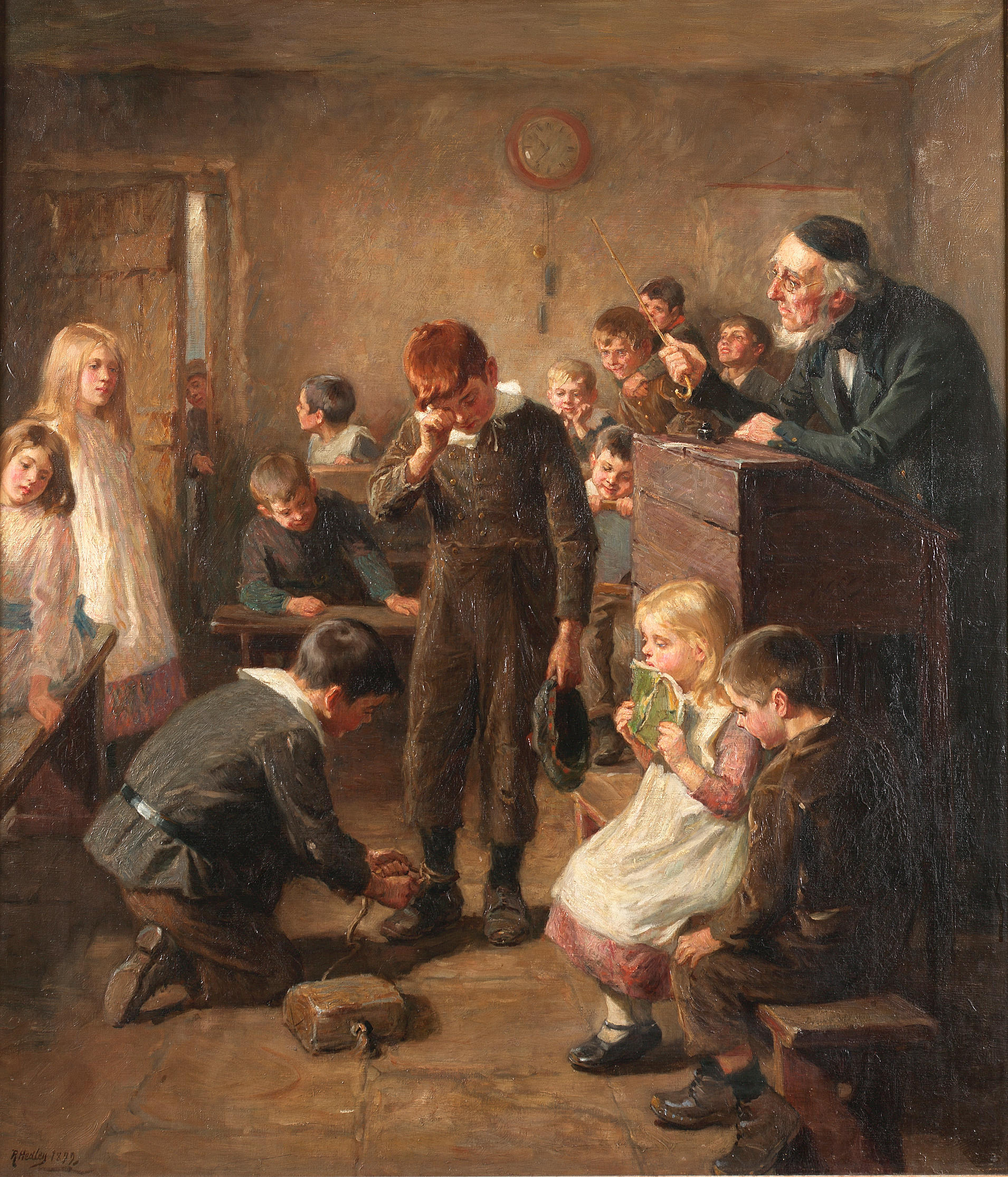 The truant's log. Signed and dated 'R Hedley 1899', oil on canvas, 106 x 92 cm